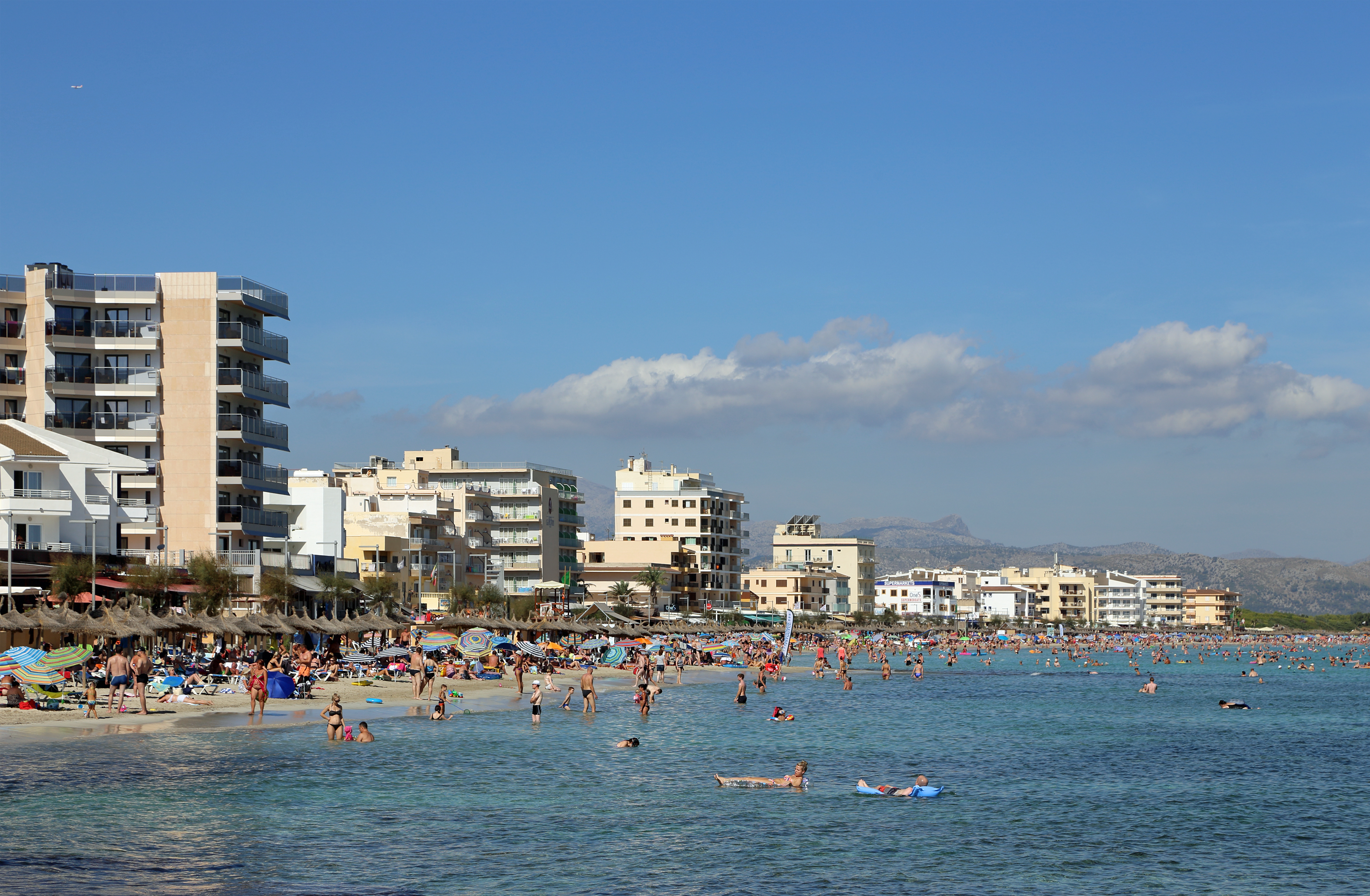 Seaside resort of Can Picafort (municipality of Santa Margalida, Majorca, Spain)